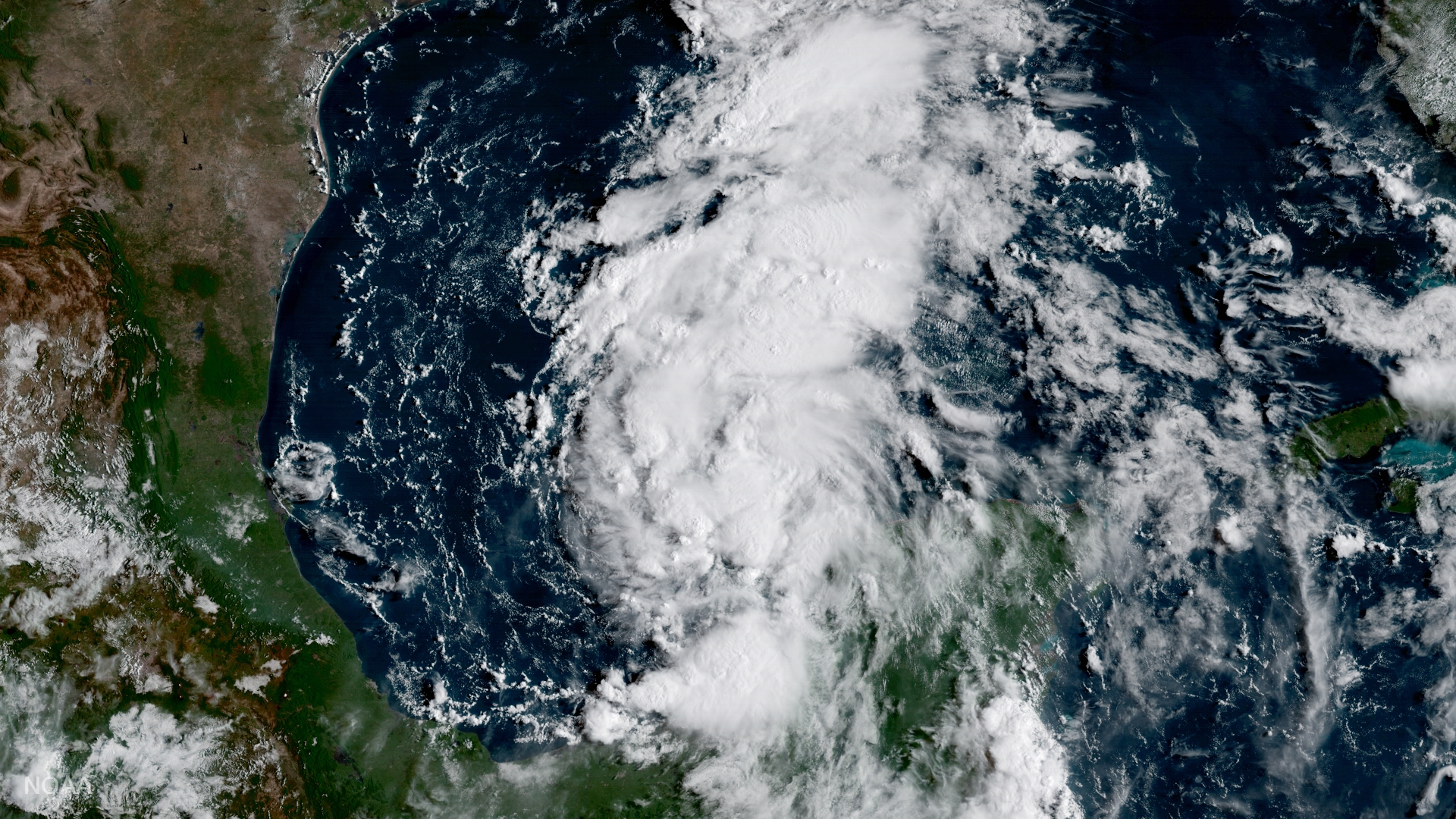 GOES-16 is keeping its eye on the remnants of what was once Tropical Storm Harvey, which has regenerated into a Tropical Depression today, August 23, 2017.